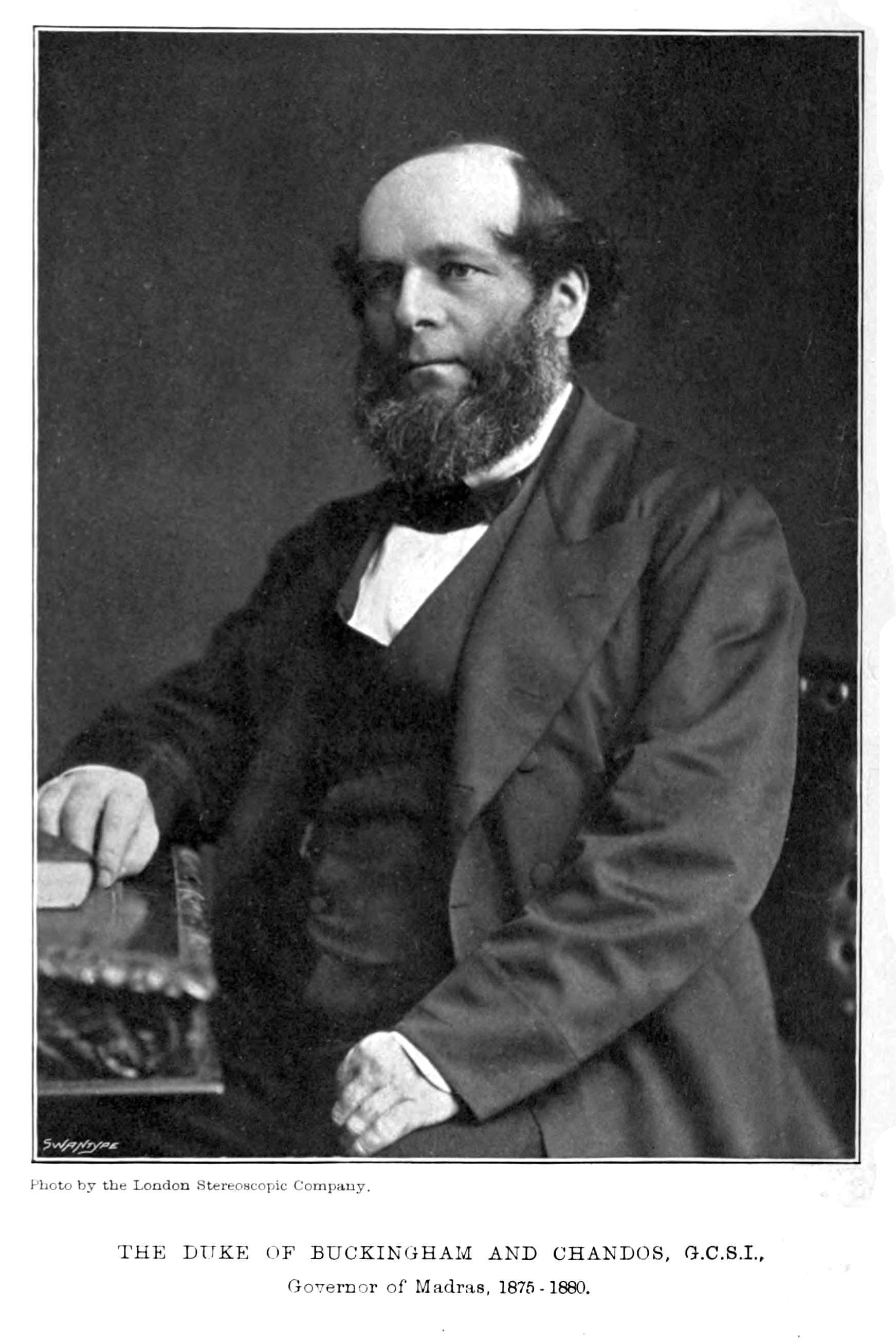 Richard Plantagenet Campbell Temple-Nugent-Brydges-Chandos-Grenville, 3rd Duke of Buckingham and Chandos GCSI, PC (10 September 1823–26 March 1889)